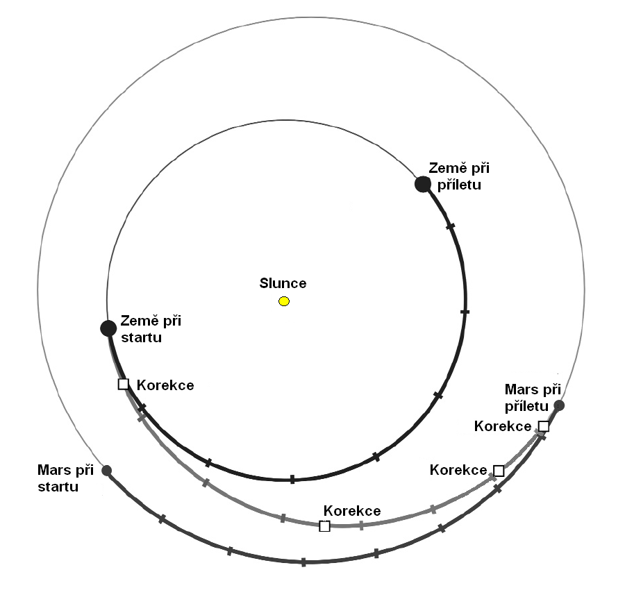 Trajectory of the Mars Reconnaissance Orbiter with czech description.